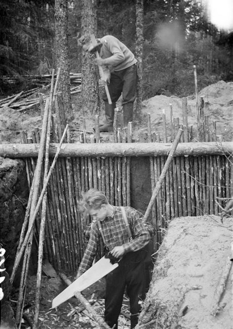 On a mine clearance encampment in Karkkula, service buildings is made, which initially gave work to 150, and in the end of the summer 350, workers.